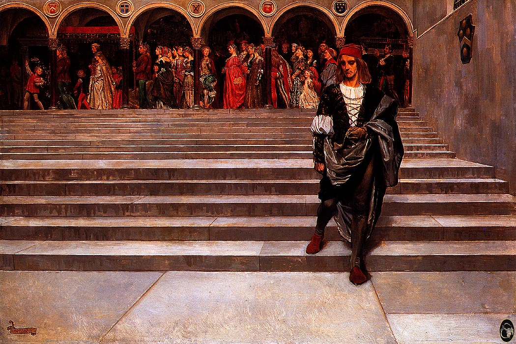 This is a heart the queen leant on // Marriage Procession Arthur Guinever